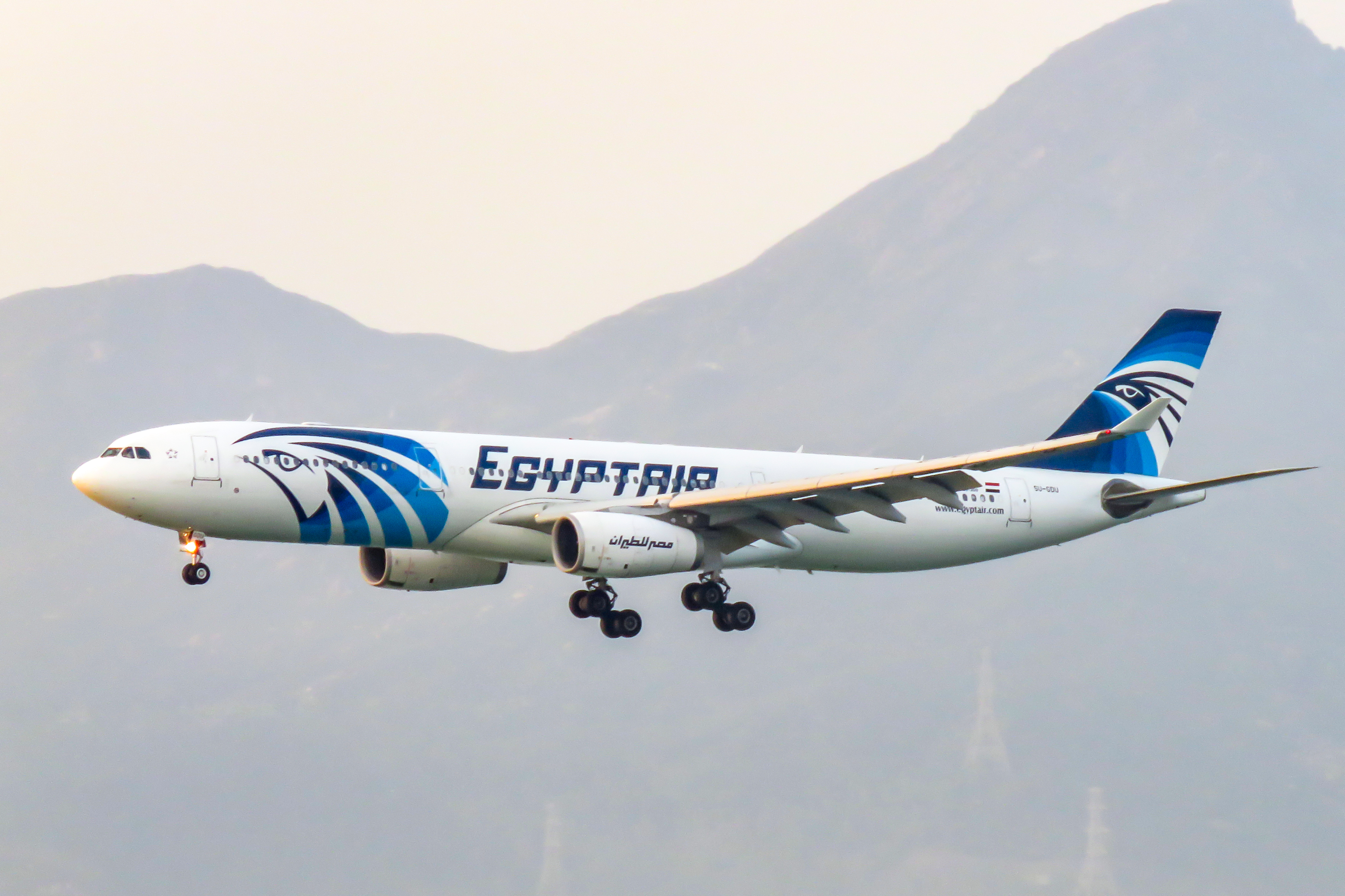 EgyptAir 960 from Cairo, via Bangkok. Their Beijing and Guangzhou routes are non-stop, but Hong Kong route still has to make a stopover at BKK? The second Egyptian element of the day after WA756.